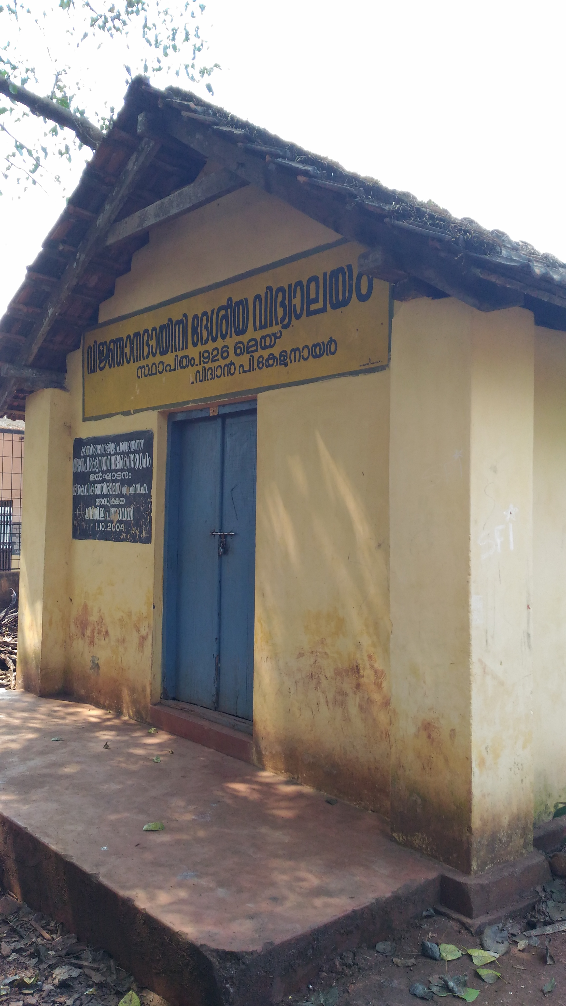 vidwan p kelu nair vignana dayini school bellikoth